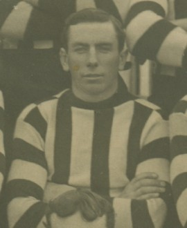 Photograph of Tom Baxter in 1910